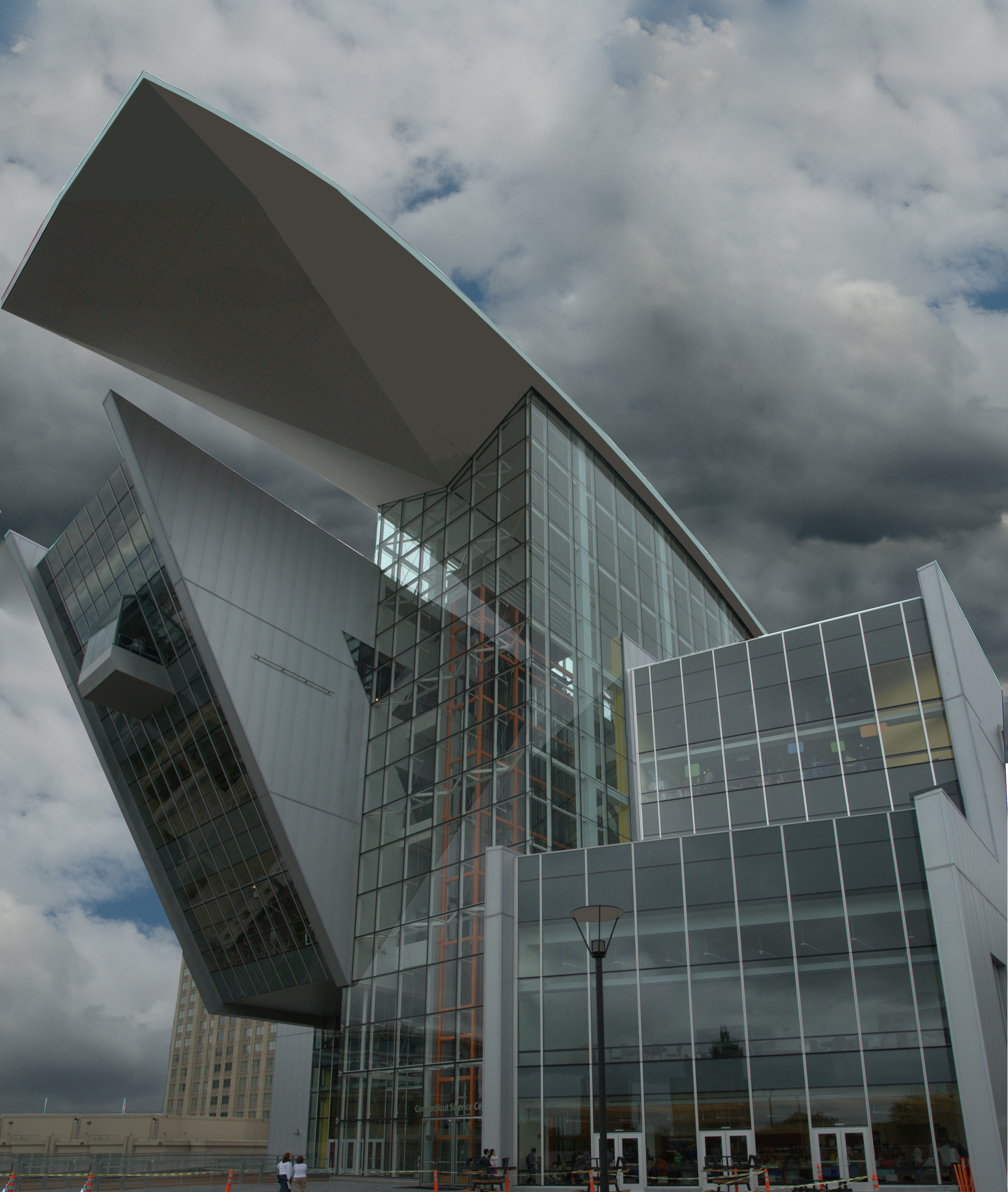 This is a picture of the new Connecticut Science Center opened in June 2009 in Hartford CT as part of the Riverfront Recapture Project.